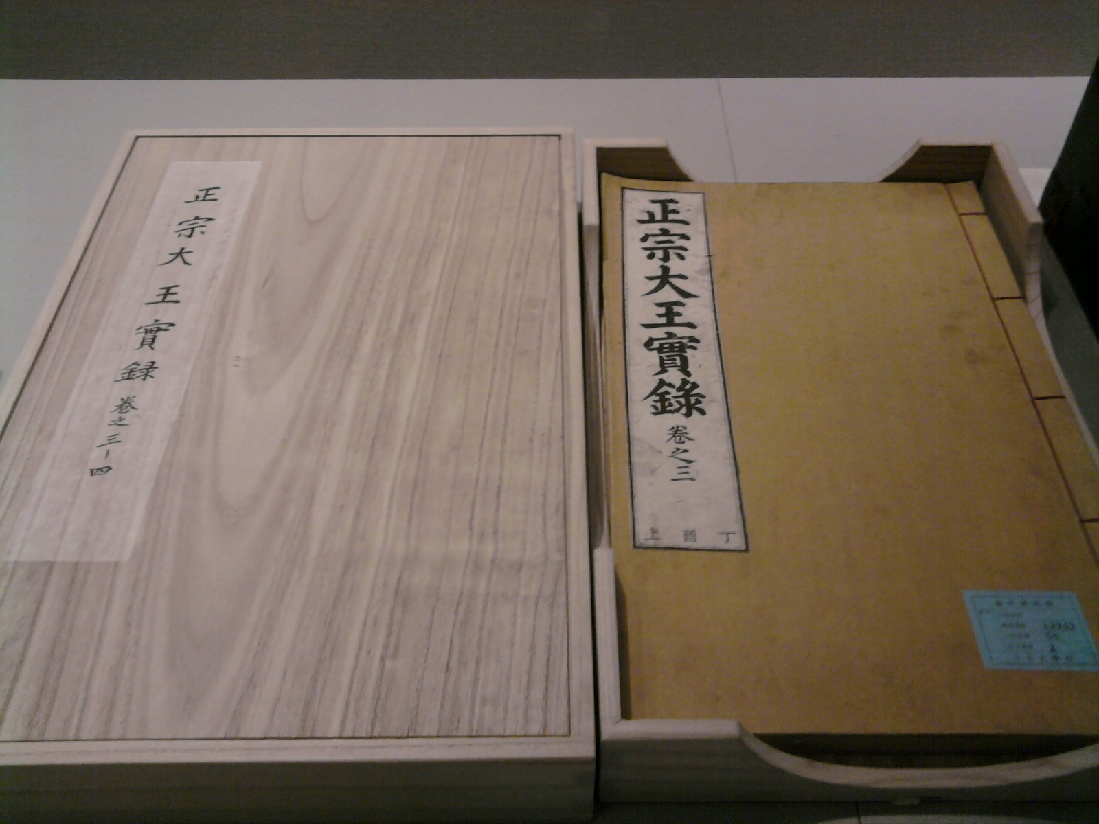 Joseon Wangjo Sillok and its case displayed in Seoul National University Kyujanggak Institute for Koreanology Studies